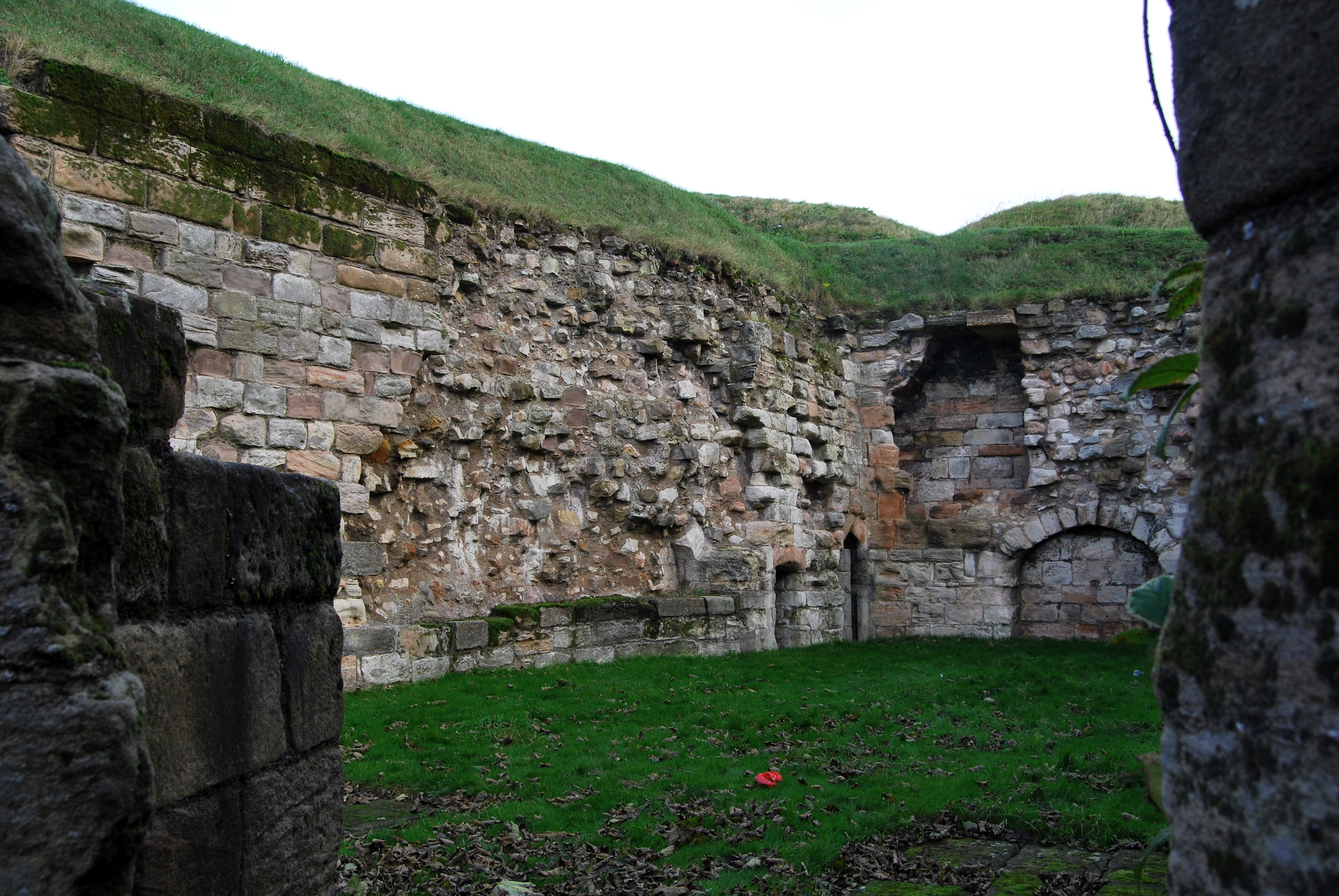 Berwick on Tweed rampart detail